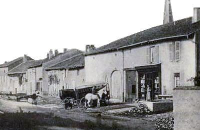 Souvenir de Vigy